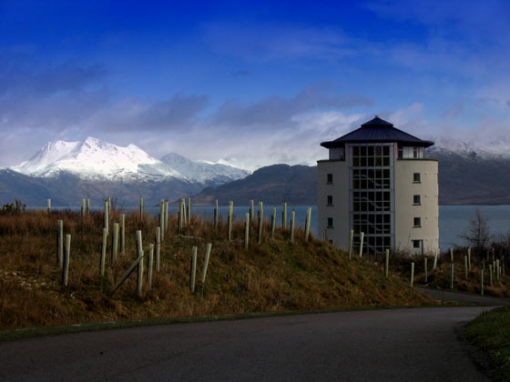 The new campus of Sabhal Mor Ostaig right on the Sound of Sleat, Isle of Skye